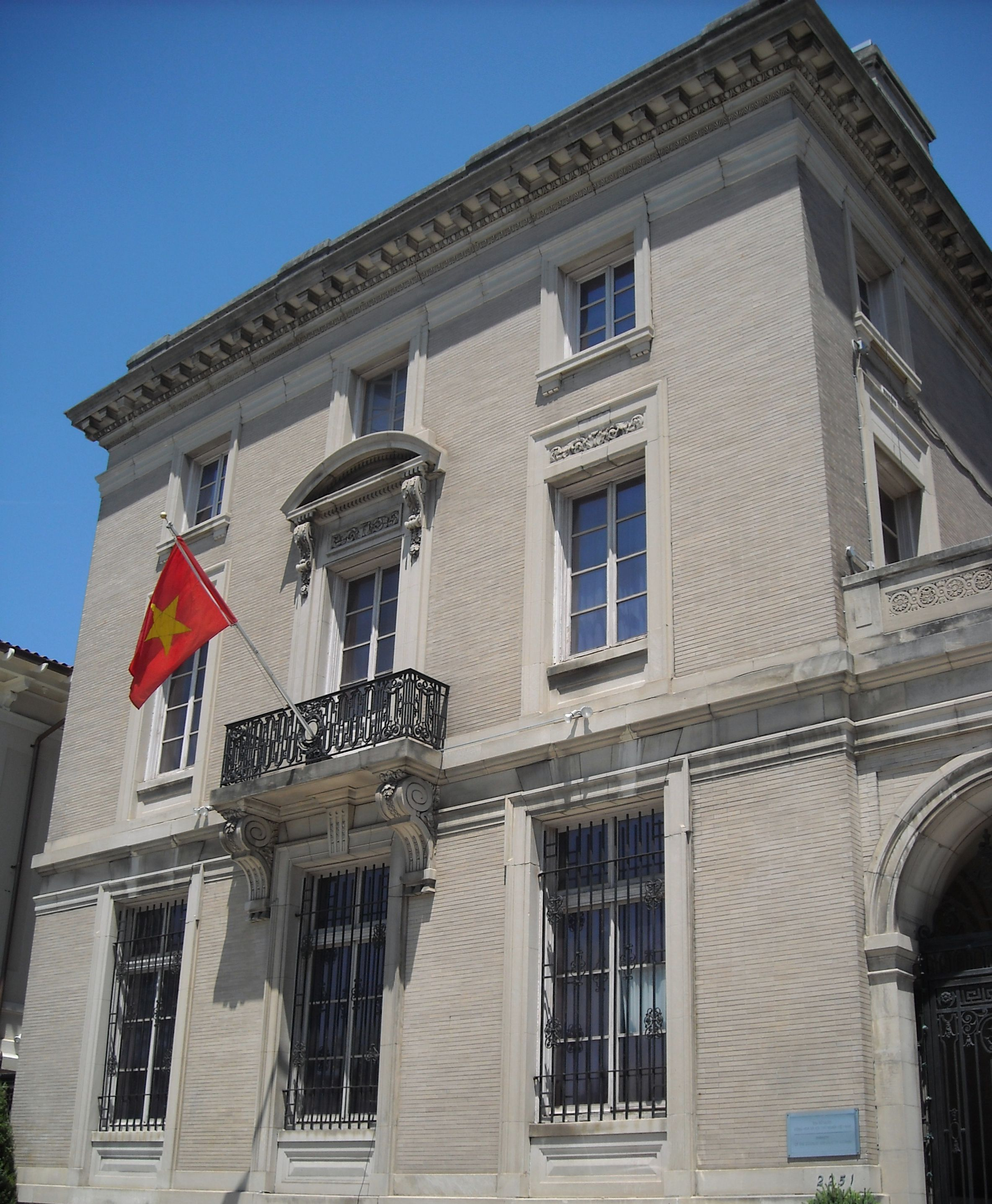 Embassy of Vietnam to the United States. Located in Washington, D.C.